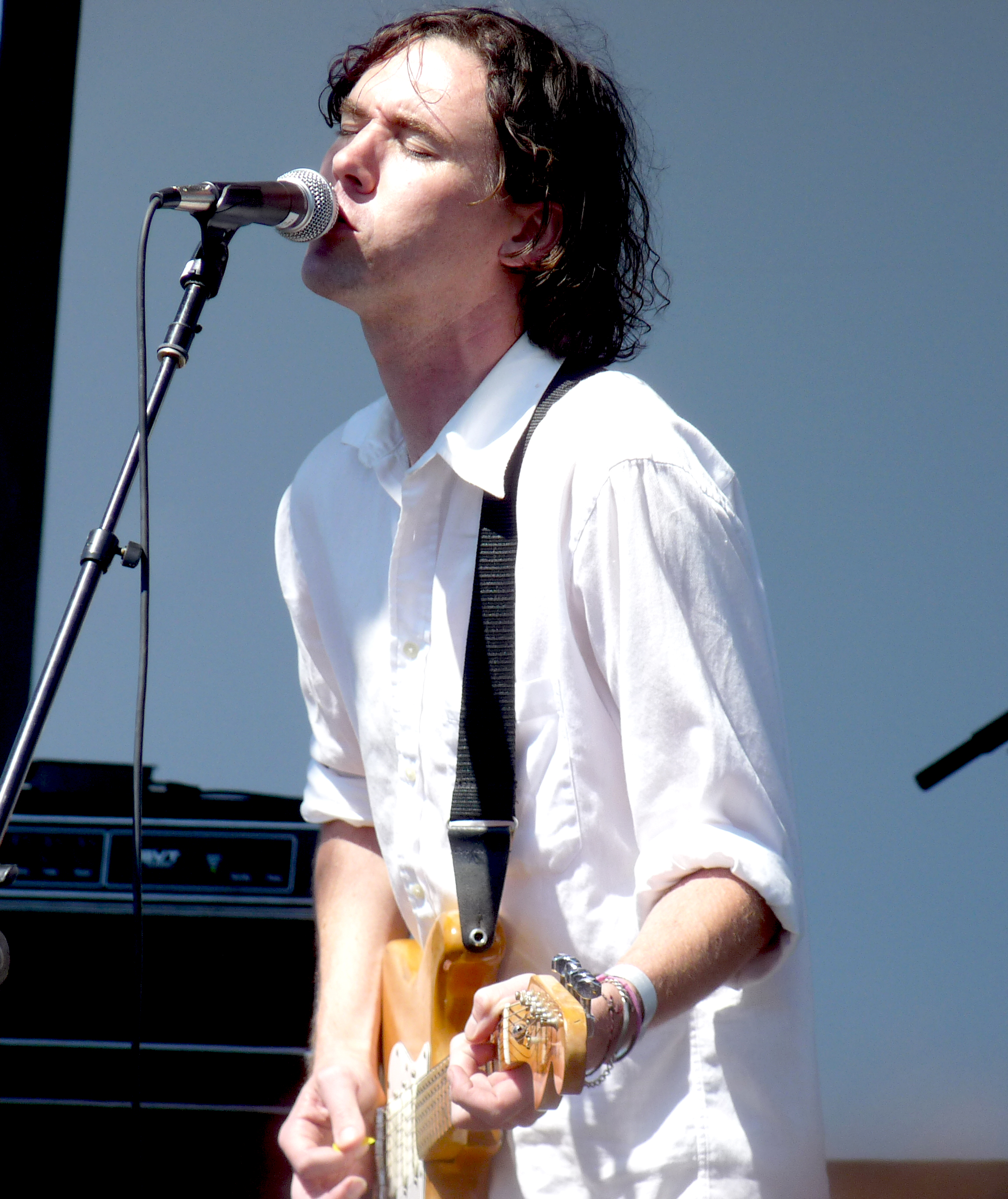 Singer-songwriter Cass McCombs live performing